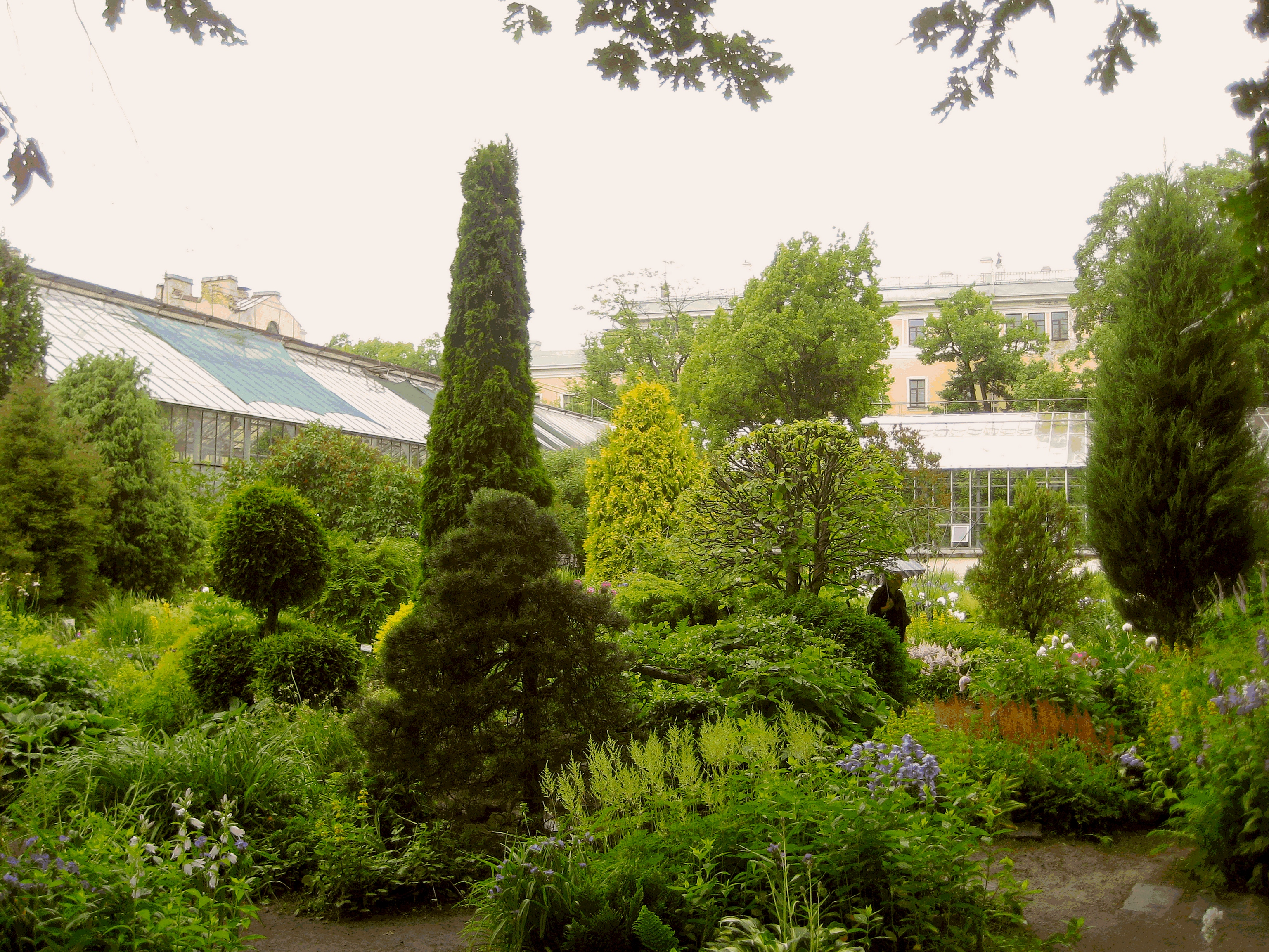 Botanical Garden of the V.L. Komarov Botanical Institute of the Russian Academy of Sciences: between the Aptekarskaya Embankment, the Karpovka River embankment, the Aptekarsky Prospekt and Professor Popova Street, Petrogradsky District, St. Petersburg This image is related to the protected area of Russia number 7800036